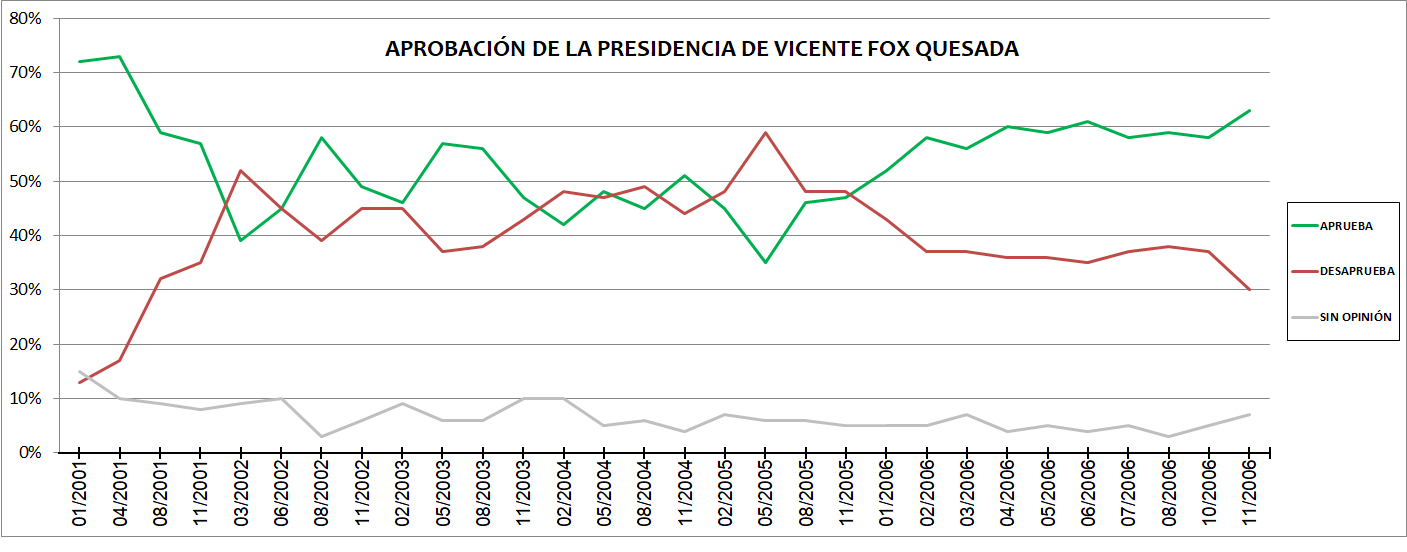 Approval/dissaproval ratings of Vicente Fox's administration from January 2001 to November 2006. Data from Gea-Isa Structura.